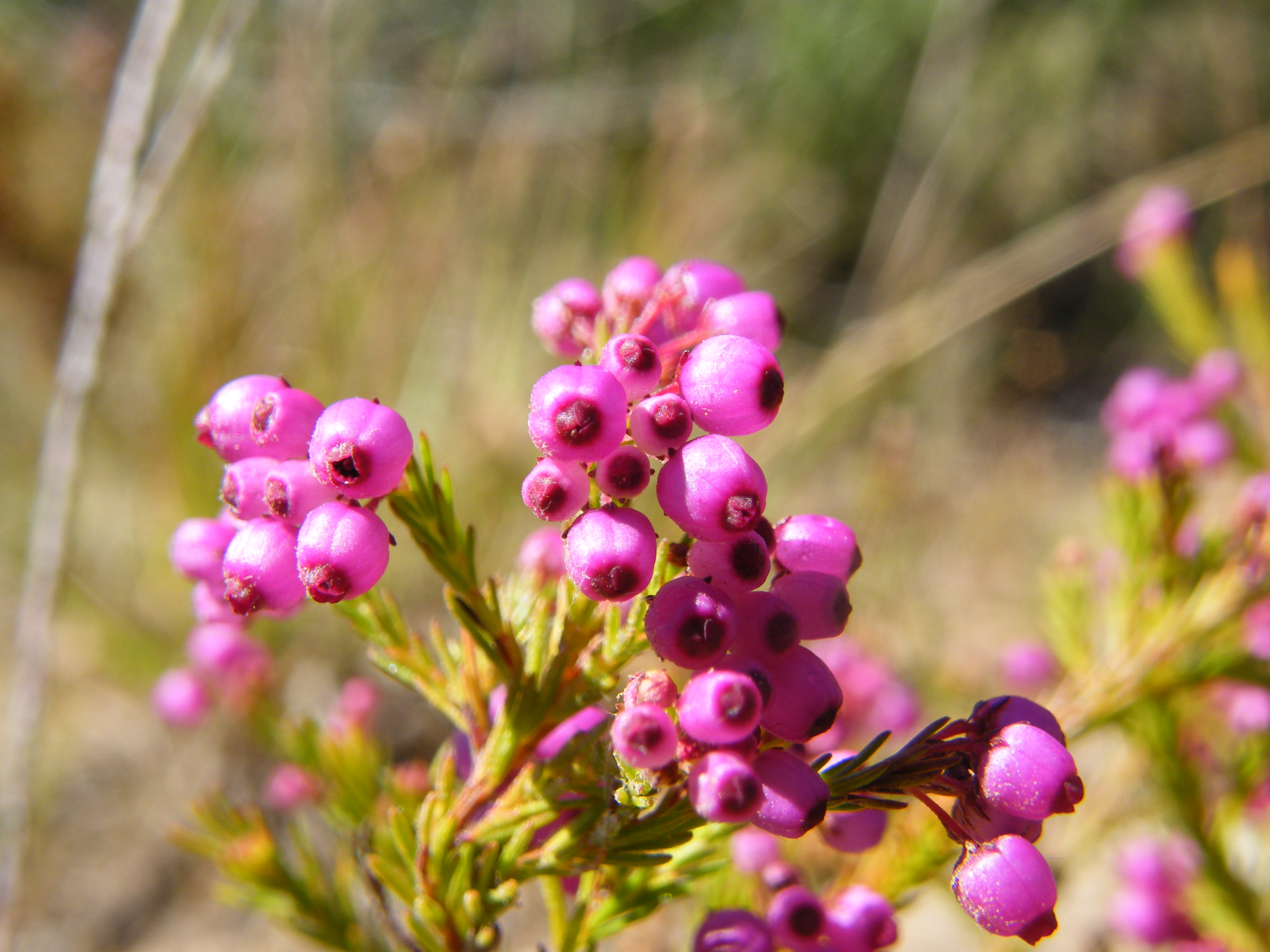 Erica